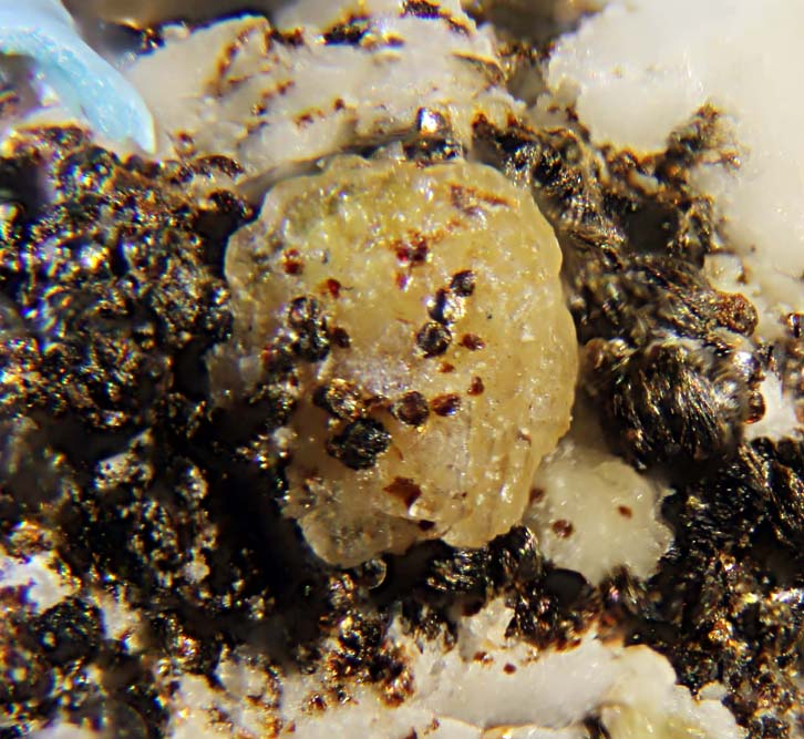 Yellow rounded crystal of the very rare yttrium mineral mckelveyite-(Y) from the famous Mont Saint Hilaire (Québec, Canada).